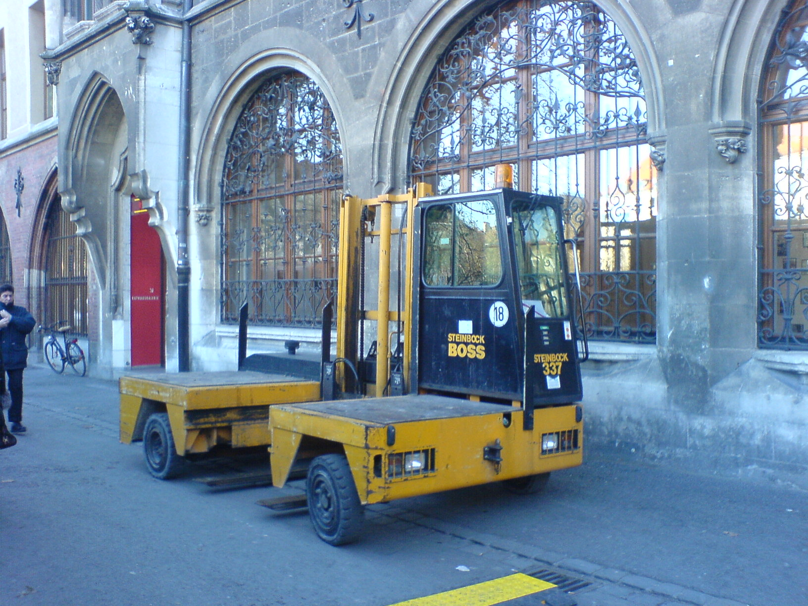 side load forklift truck Boss 337